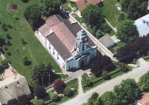 Apátfalva, aerial view of St Michael's Parish Church.